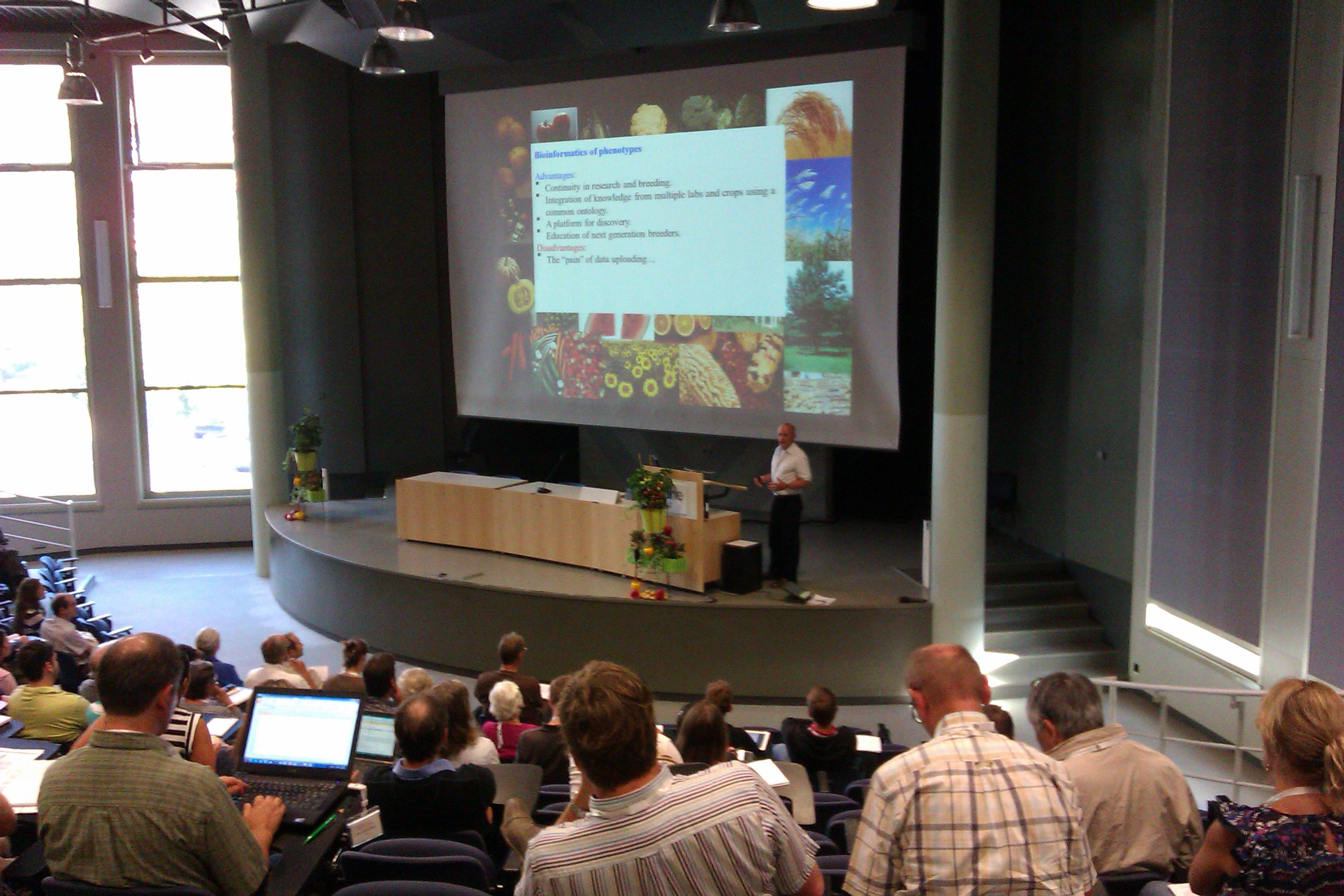 Dani Zamir - Is there a limit to yield?